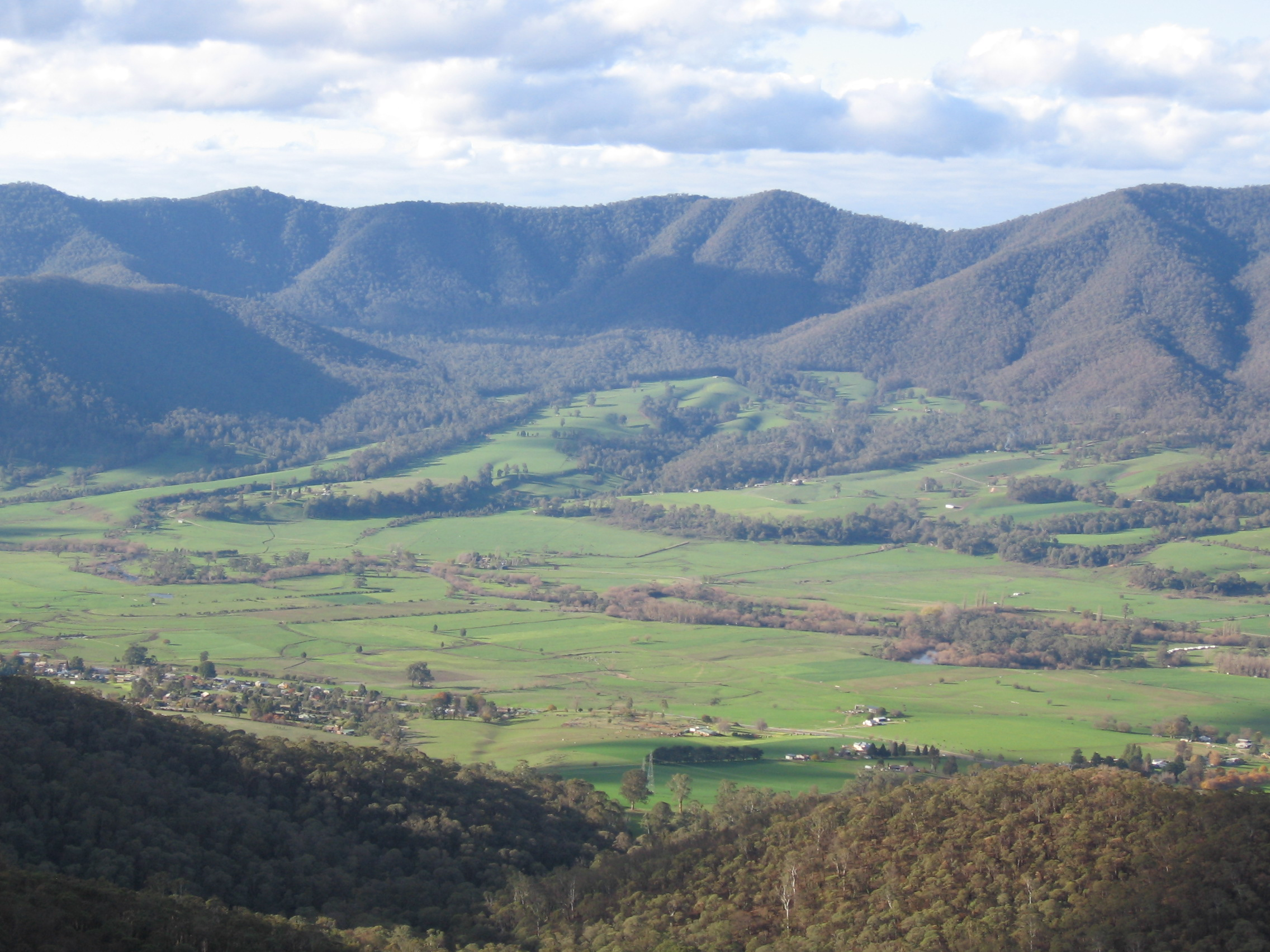 The valley of the Kiewa River in Victoria. Taken from Tawonga Gap lookout.